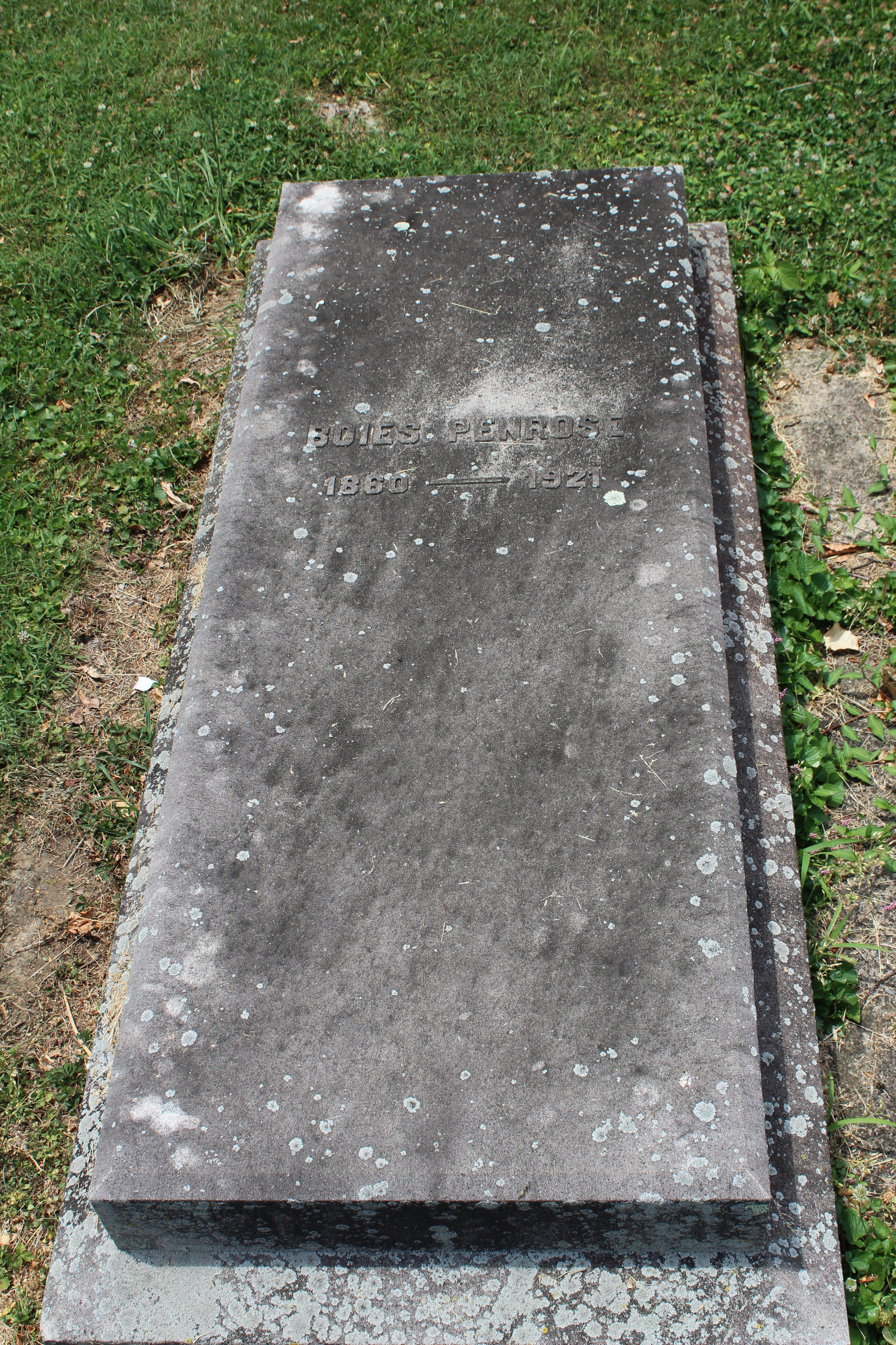 Boies Penrose tombstone in Laurel Hill Cemetery. Photo taken July 2020.